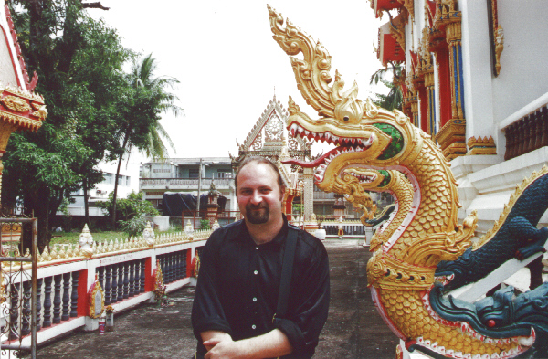 Richard Freeman, photographed in November 2006. Picture courtesy CFZ Used with full permission